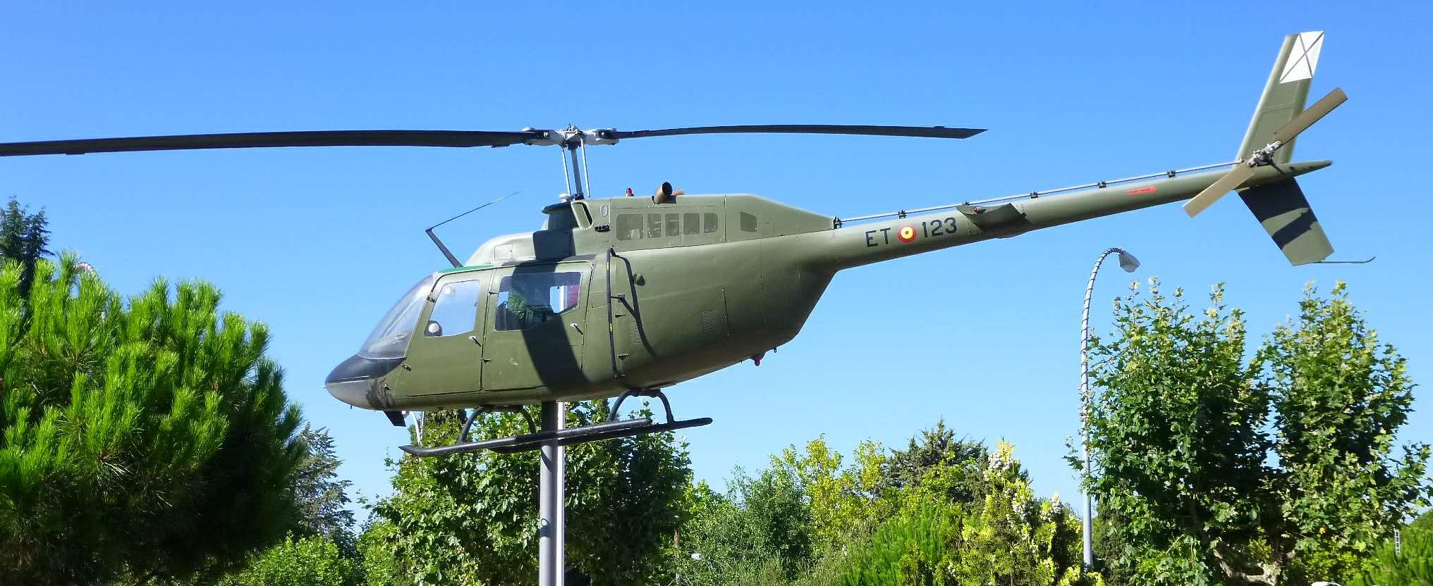 OH-58A of the Spanish Army